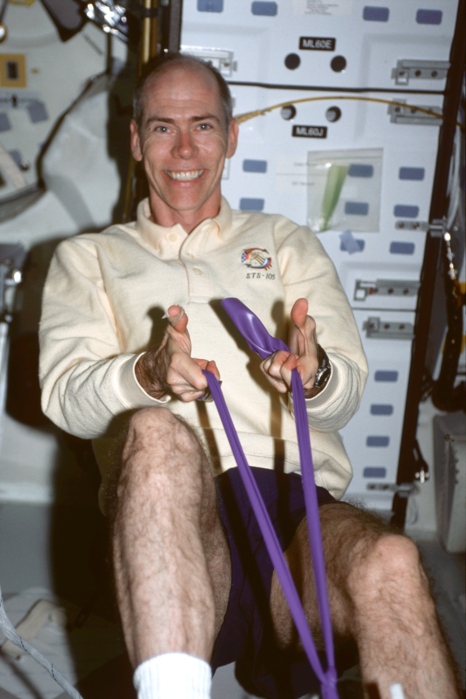 STS105-311-031 (10–22 August 2001). Astronaut Daniel T. Barry works out on an ergometer device on the mid deck of the Space Shuttle Discovery. Barry is one of two STS-105 mission specialists scheduled for two days of extravehicular work (EVA) on the International Space Station (ISS).